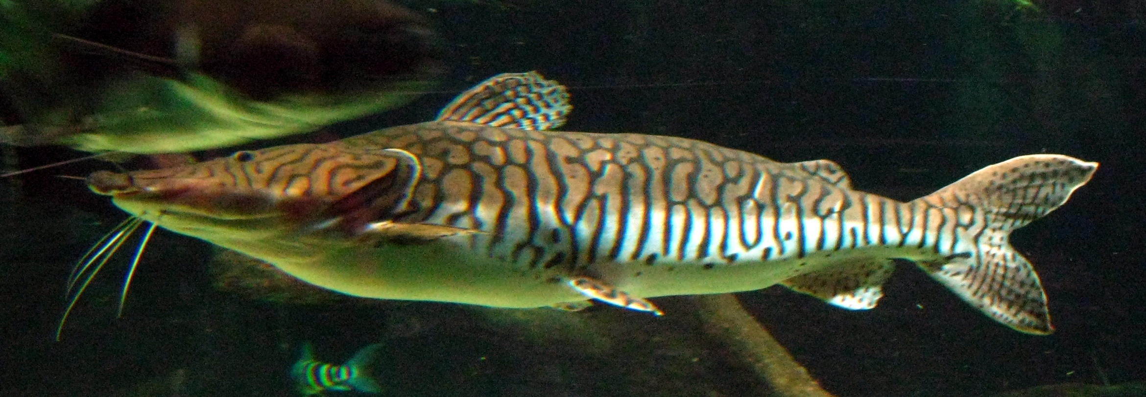 Pseudoplatystoma fasciatum at Nausicaä, Centre National de la Mer.